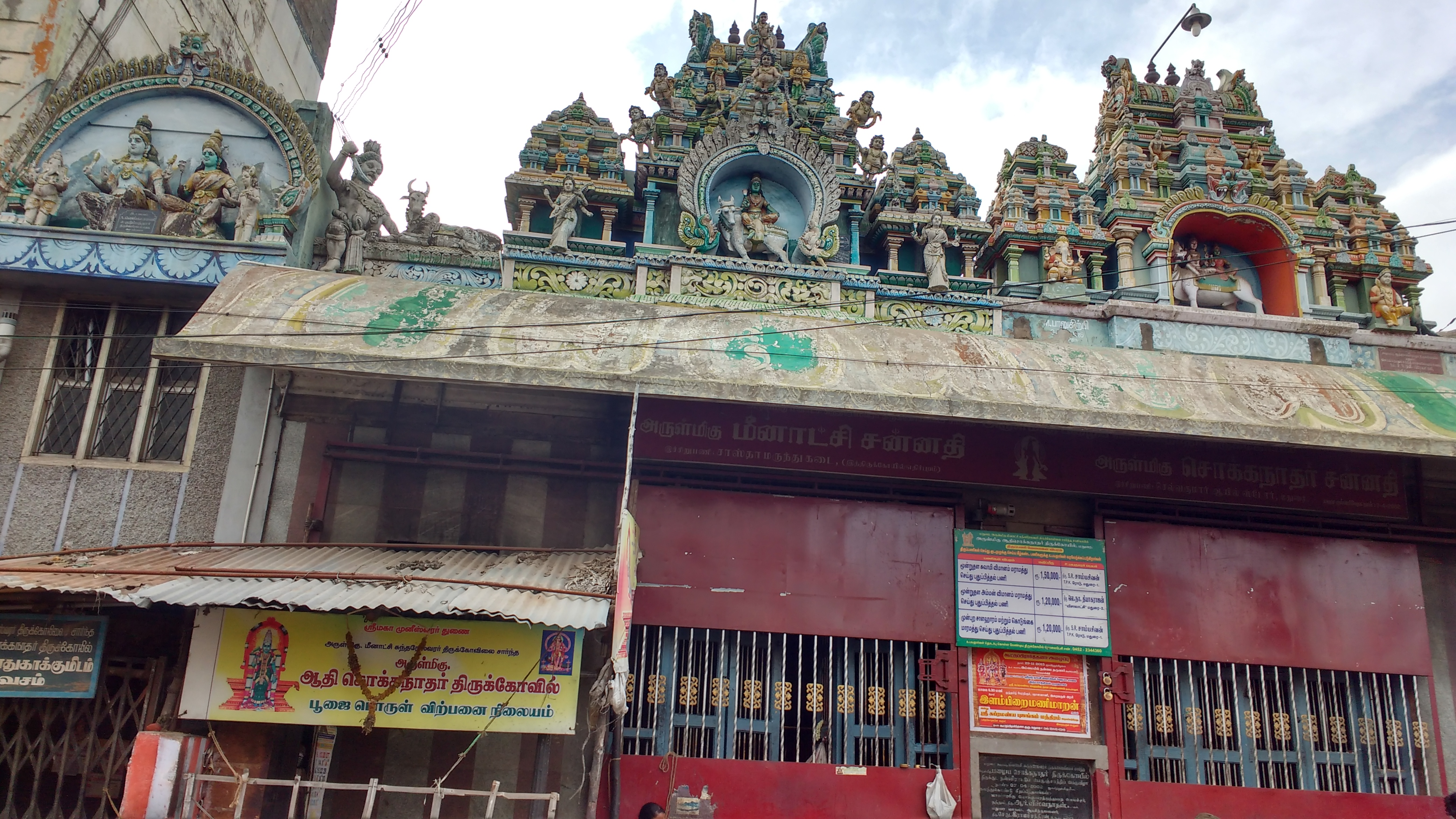 Adi Chokkanathar Siva Temple, Simmakkal, Madurai City.